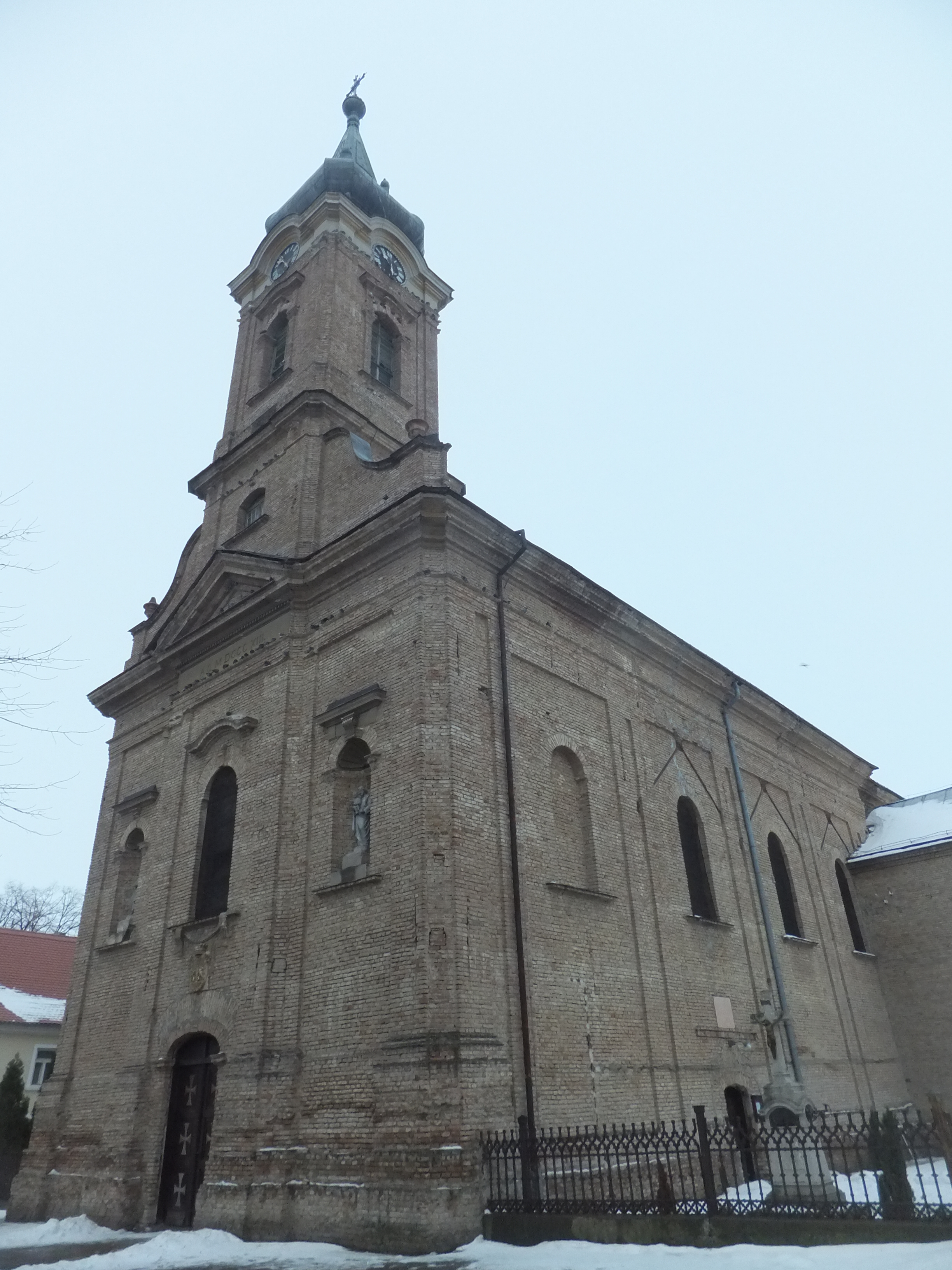 Catholic church in Ruma